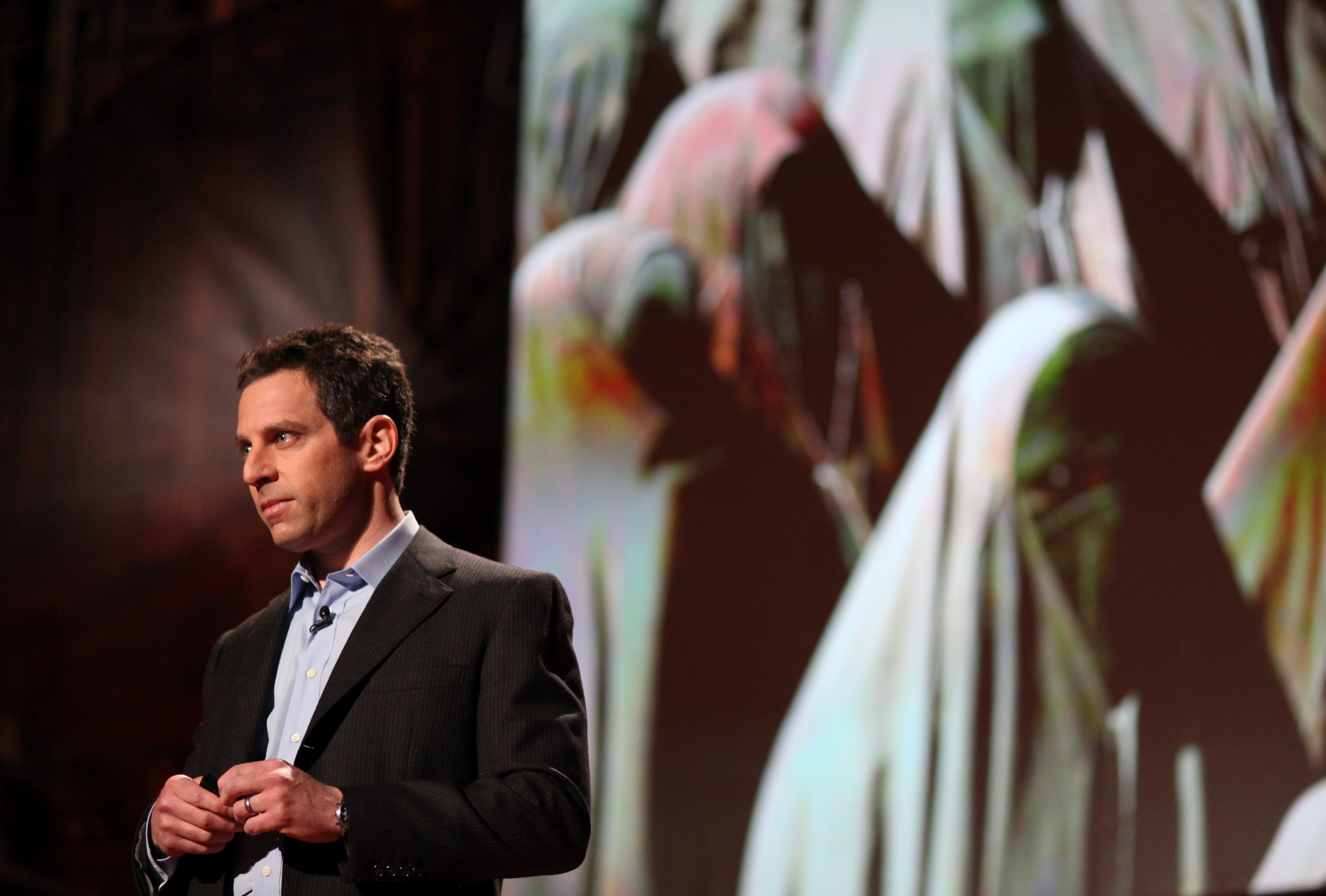 Sam Harris speaking in 2010